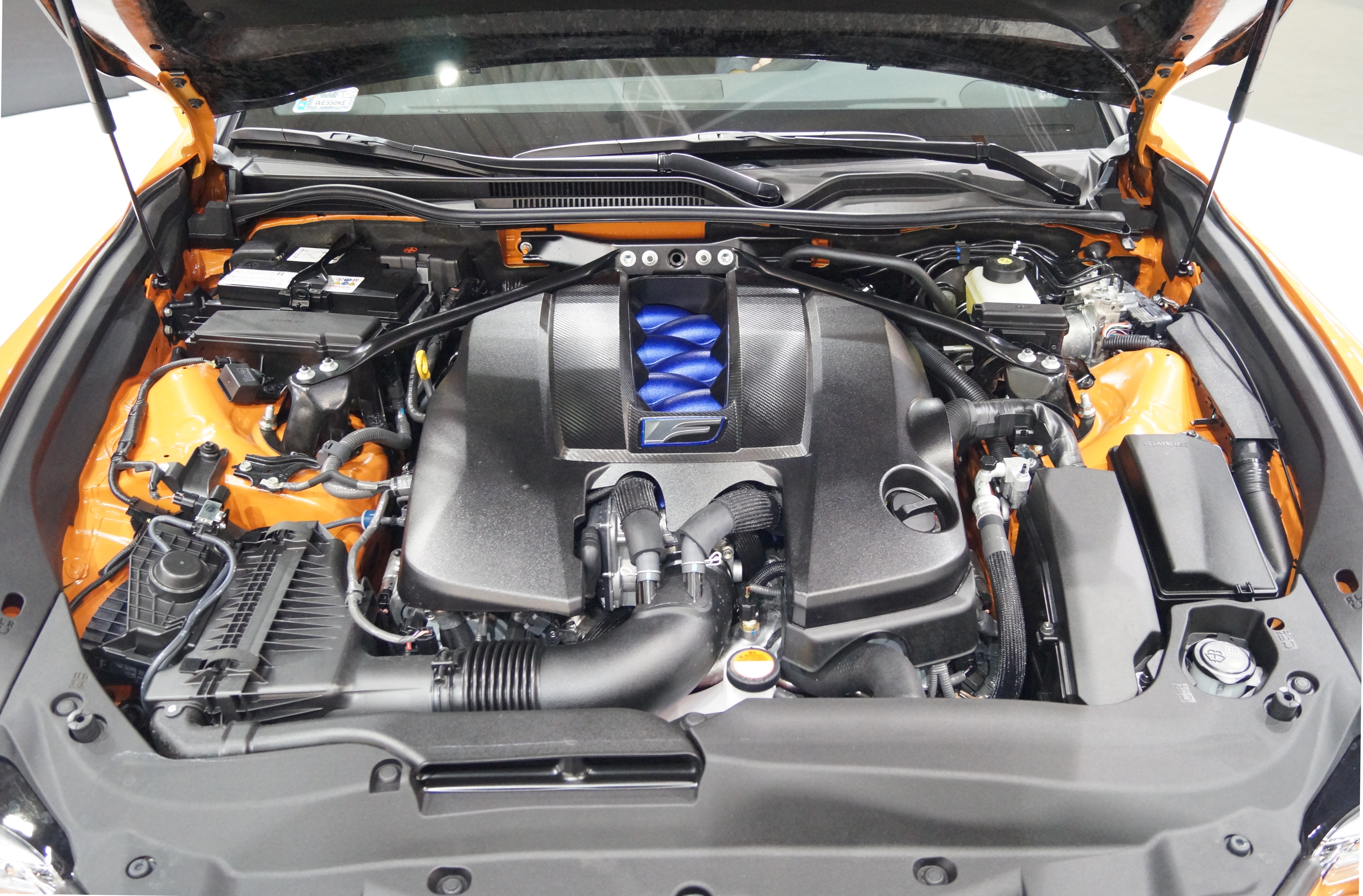 The making of this document was supported by Wikimedia Polska Association, within Wikigrant no. WG 2015-19. English | polski | +/− Silnik Toyota 2UR-GSE (5.0l V8) w Lexusie RC F na Motor Show Poznań 2015